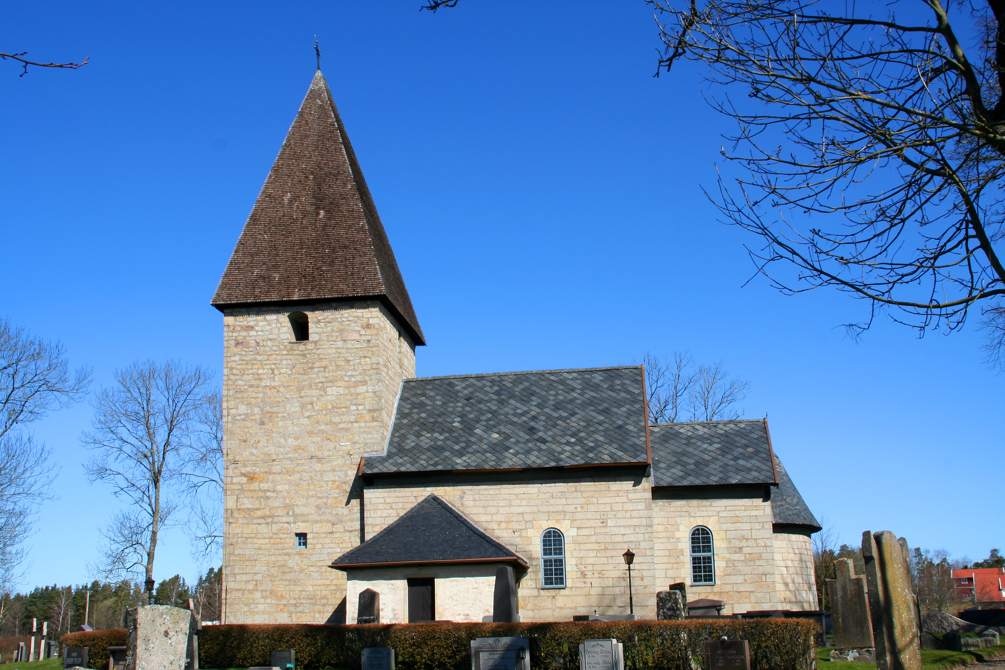 Kinne-Vedum Church